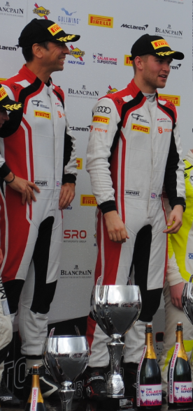 The GT4 winners of the final round of the 2019 season, Richard Williams and Sennan Fielding.